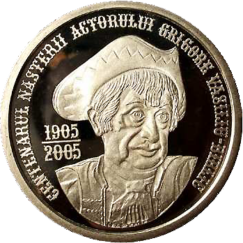 Front of a 2005 coin issued by National Bank of Romania depicting the Romanian actor Grigore Vasiliu Birlic.